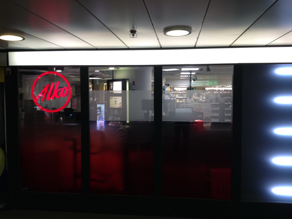 Alko store at Helsinki Central Station